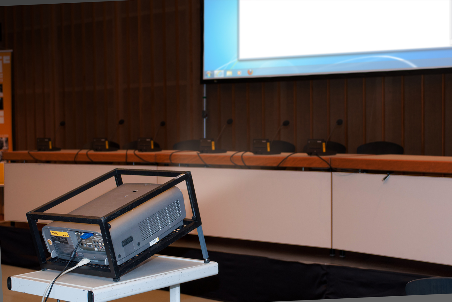 Video-projector mounted in frame (steep angles)